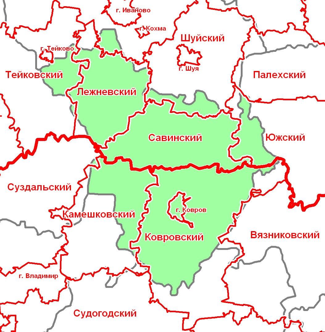 Maps of Vladimir Governorate